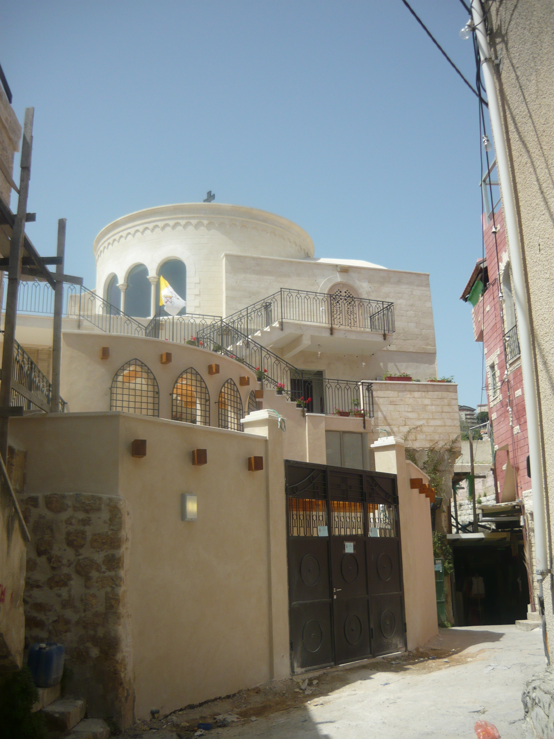 International Mary Center in Nazareth